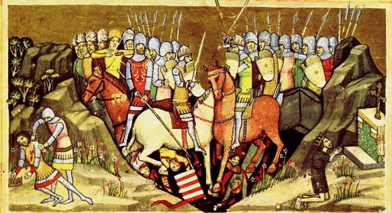 Miniature image of the Battle of Ménfő (1044)